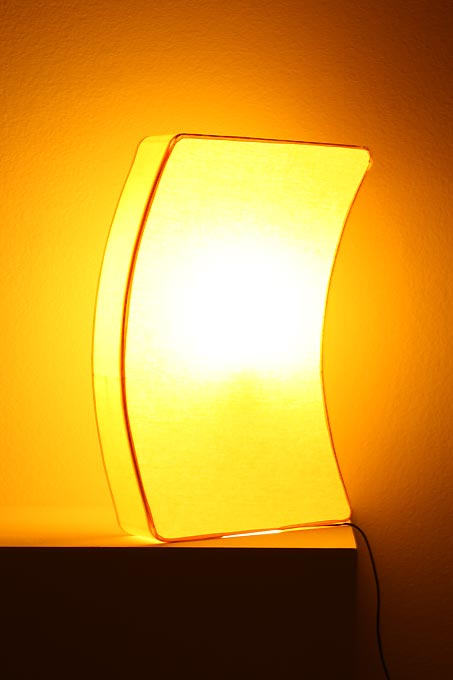 Light art object "Archiquants-lamp" by Heidulf Gerngross, shown at the Lightart Biennale Austria 2010